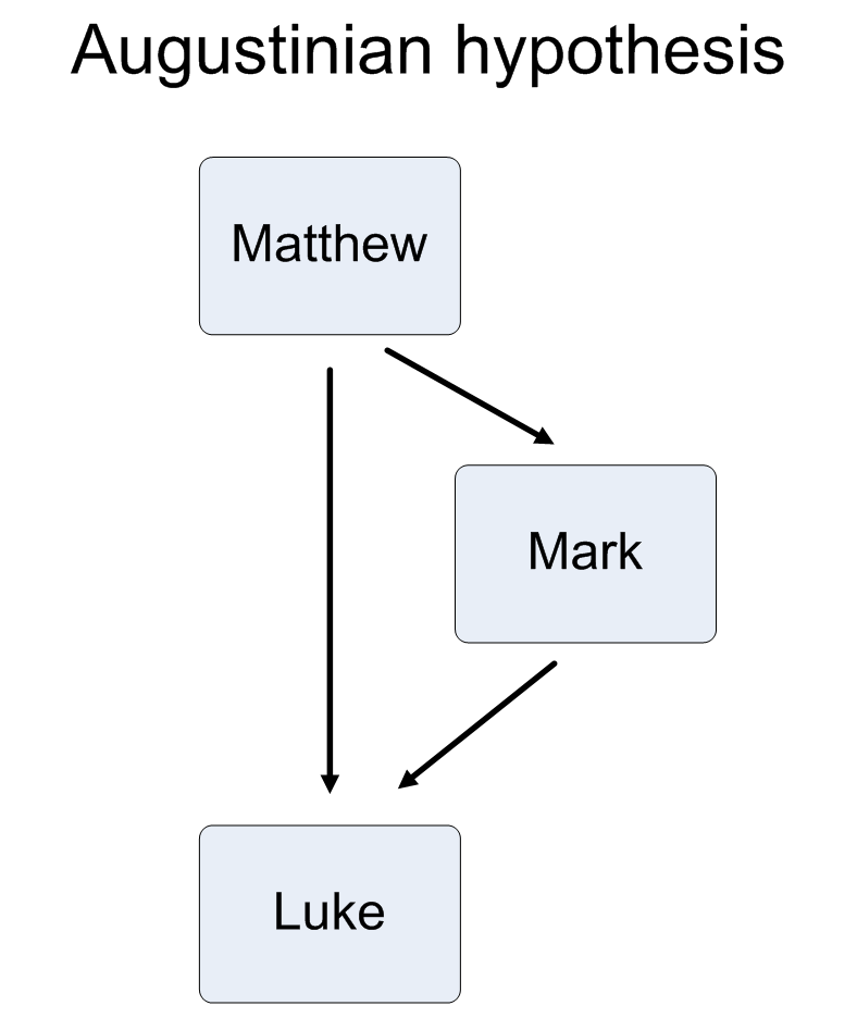 The Augustinian hypothesis solution to the Synoptic problem